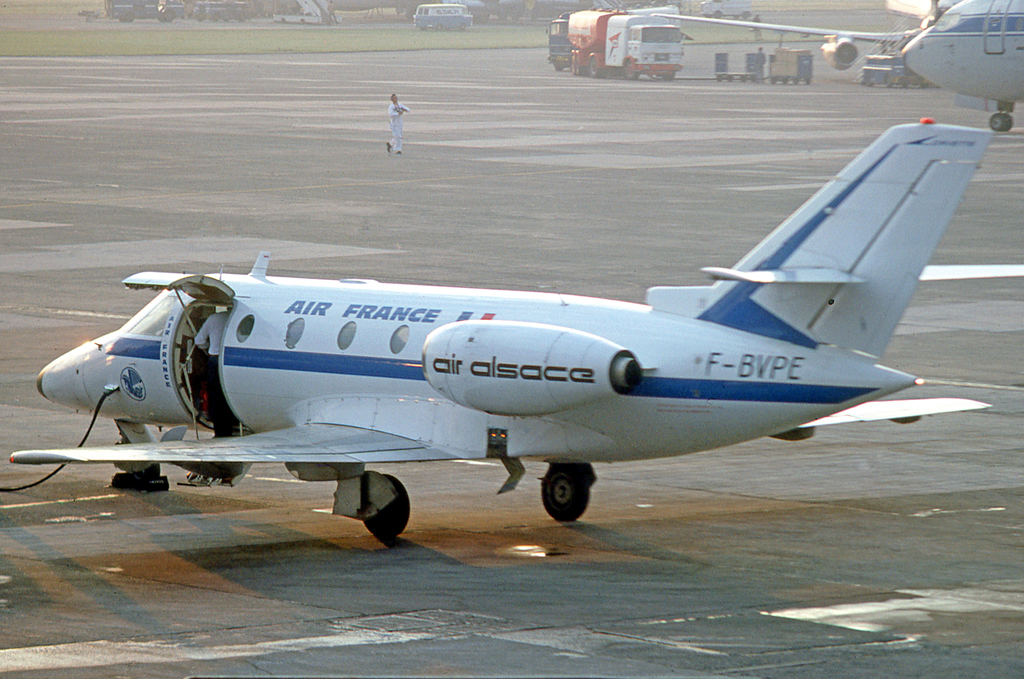 Aerospatiale SN-601 Corvette FBVPE of Air Alsace at Brussels Airport in 1977